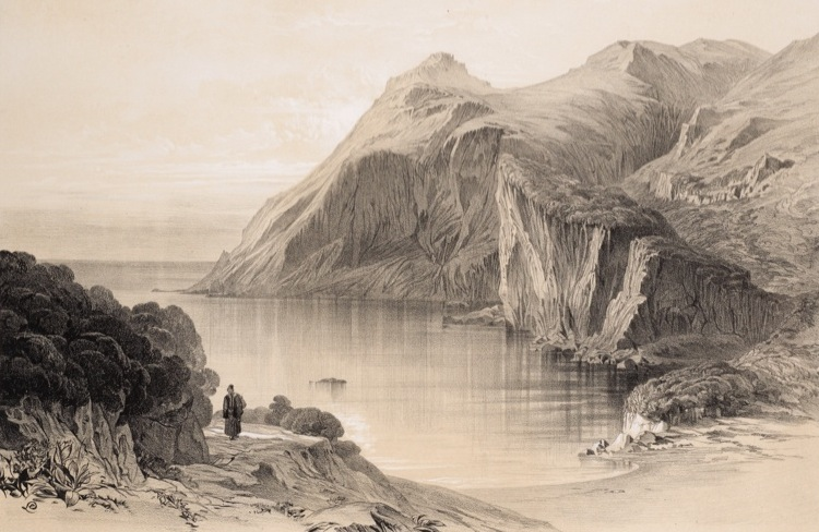 Castel Sant Angelo-Corfu Engraving 24X36 cm by Edward Lear